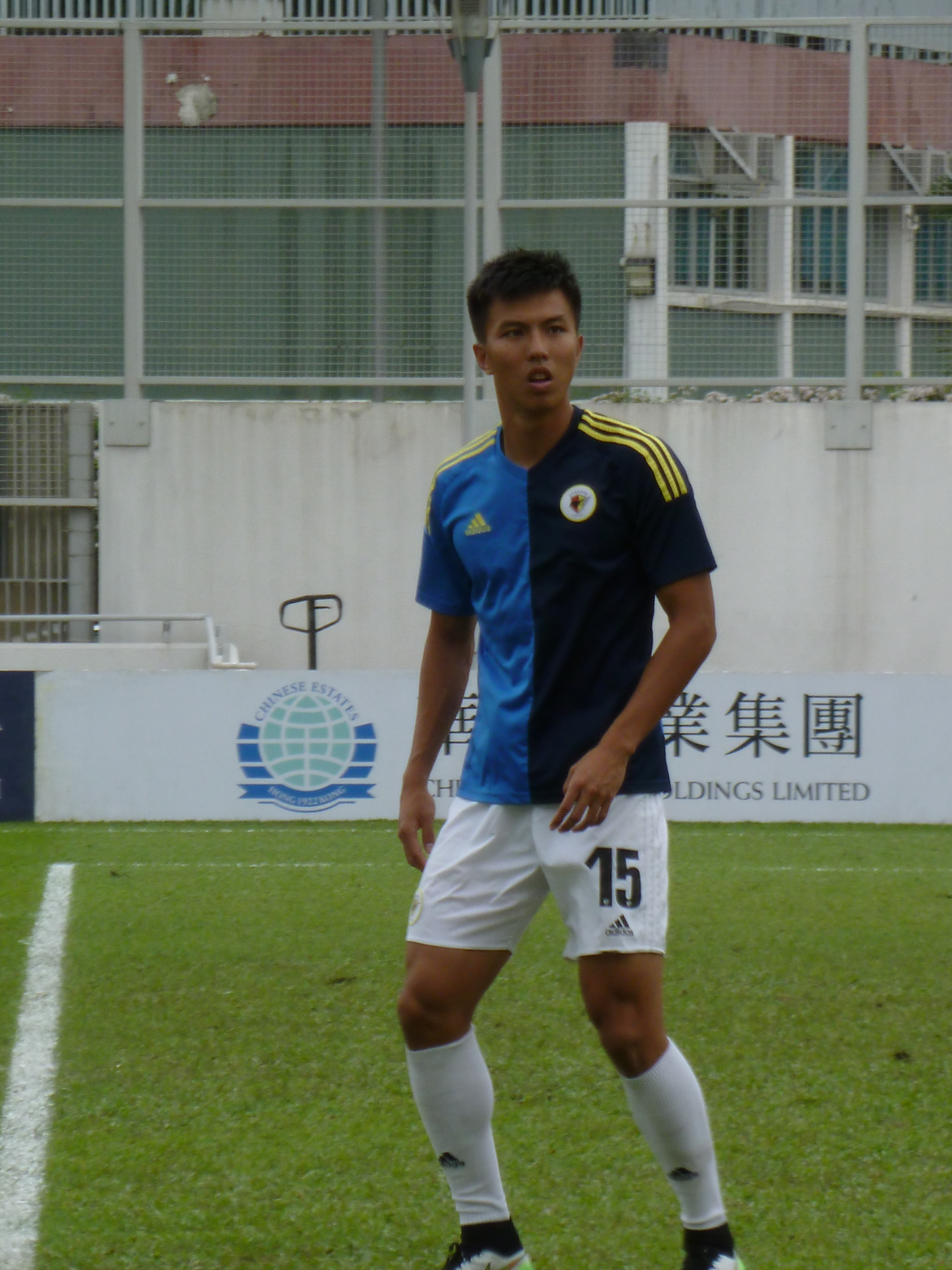 Fung Hing Wa (01 May 2016, Hong Kong FA Cup, Southern vs Pegasus, Mong Kok Stadium) 中文（香港）: 馮慶燁 (01 May 2016, 香港足總盃, 南區 vs 飛馬, 旺角大球場)